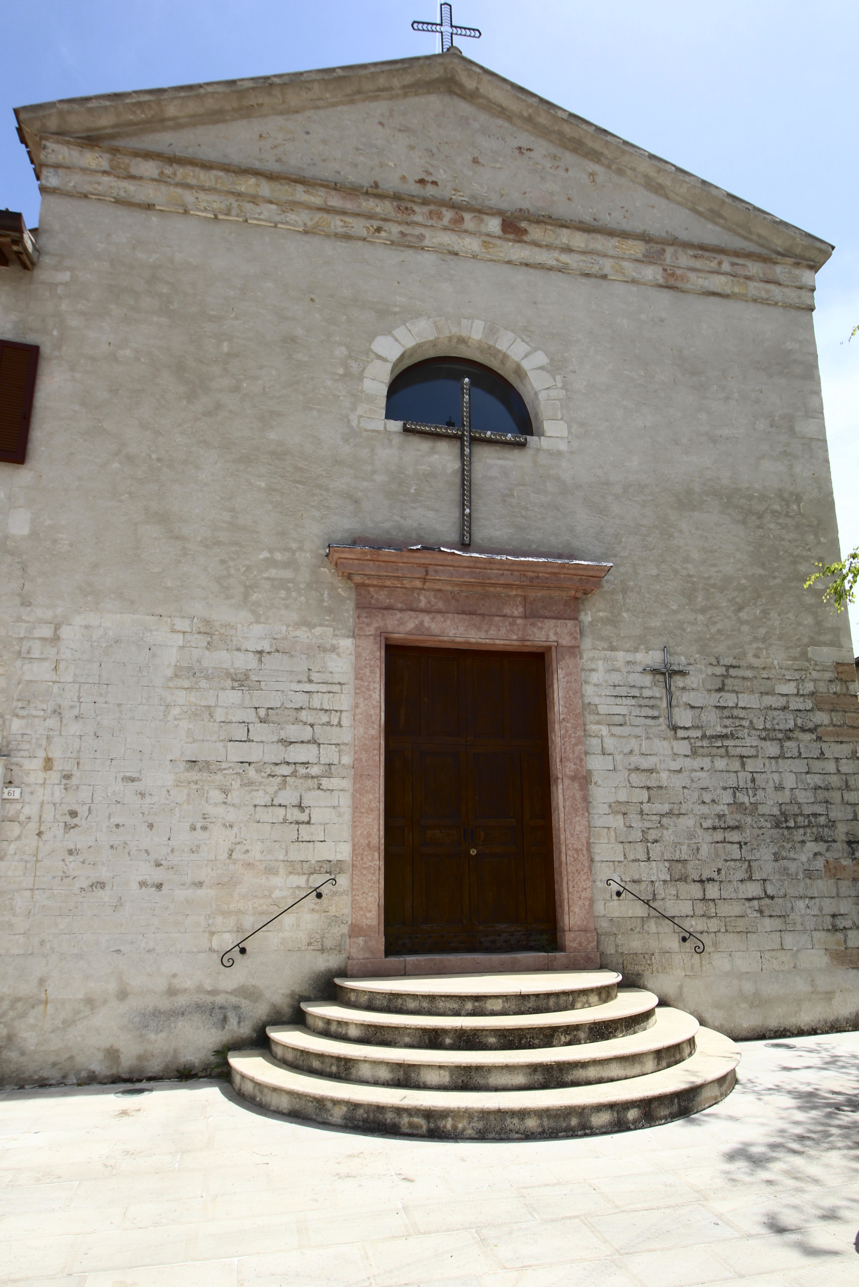 church San Silvestro, Villamagina, hamlet of Sellano, Province of Perugia, Umbria, Italy